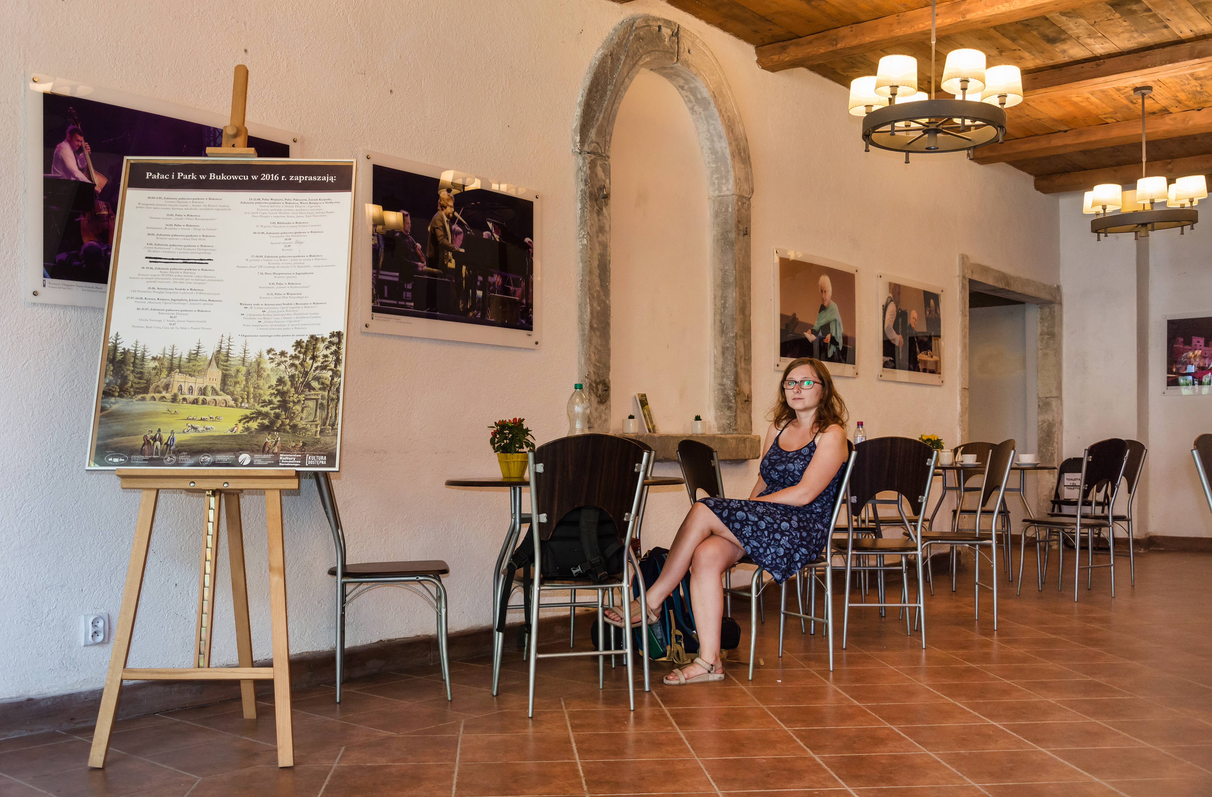 Barn in Bukowiec